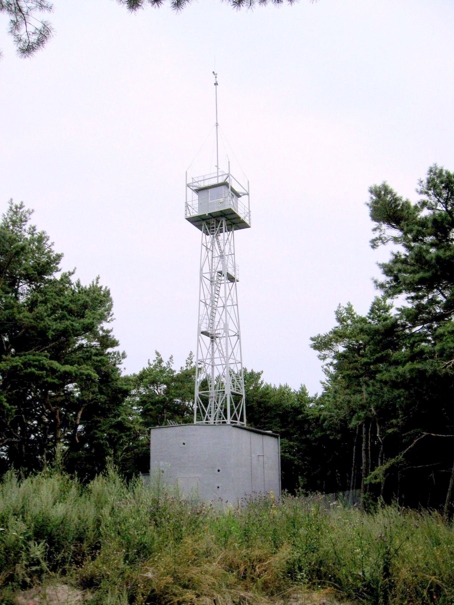 Border Protection Forces in Jastarnia